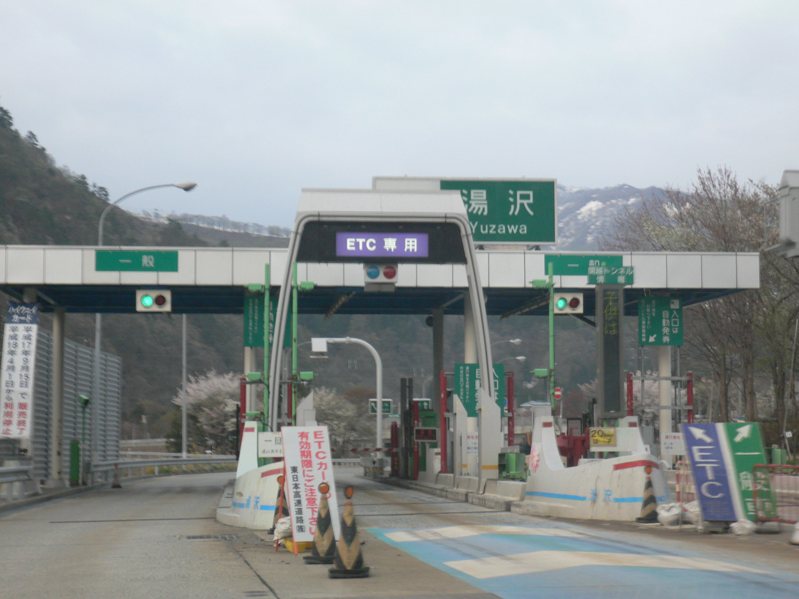 Yuzawa IC (湯沢インターチェンジ), Yuzawa T, Niigata P.